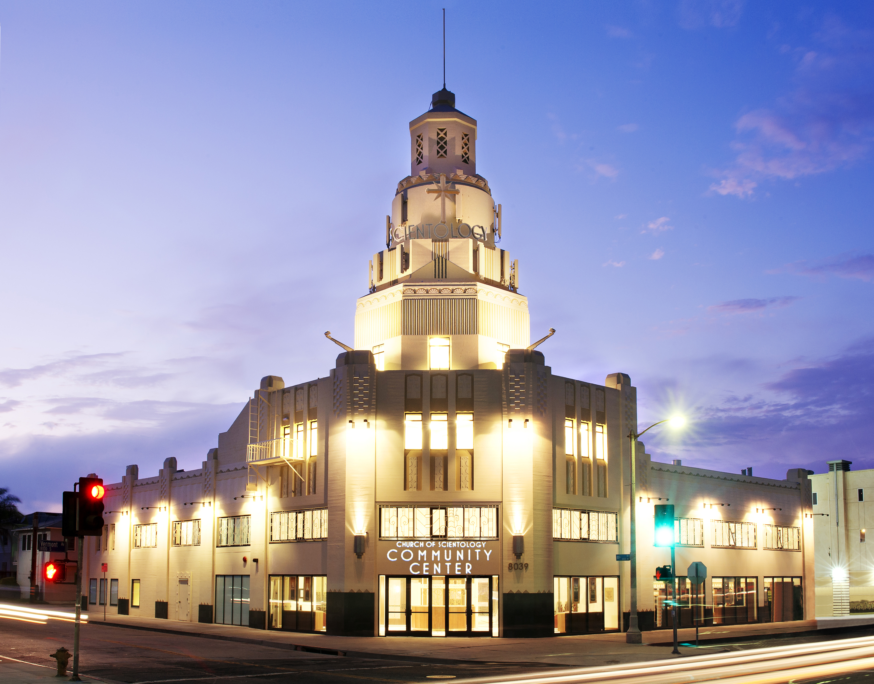 The new Scientology Community Center on Vermont Avenue in Inglewood — is housed in an historic Art Deco landmark that dates from the early 1930s, and which the Church has meticulously restored. It was opened on 5 November 2011 and features a 380-seat event hall, the L. Ron Hubbard Community Auditorium, designed for community events and as a meeting ground for residents of all denominations. The Center further includes numerous classrooms and seminar facilities for a full range of civic programs, including a complete literacy and tutoring center.